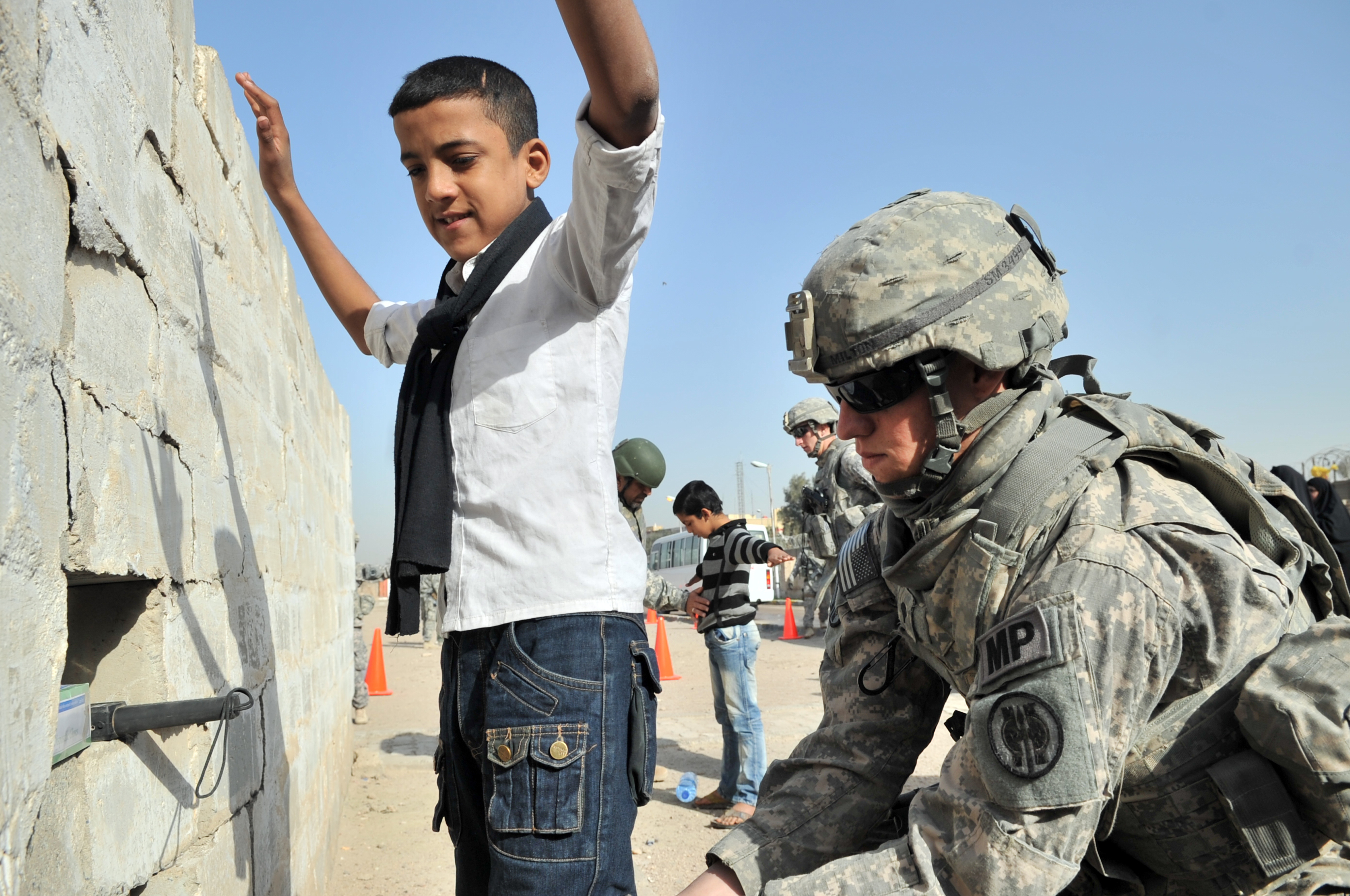 A U.S. Soldier searches an Iraqi boy before allowing him access to the Basra Operations Center during a Medical Civic Assistance Program in Basra, Iraq, March 7, 2011. The Soldiers are with the 422nd Military Police Company, assigned to 1st Battalion, 12th Cavalry Regiment.